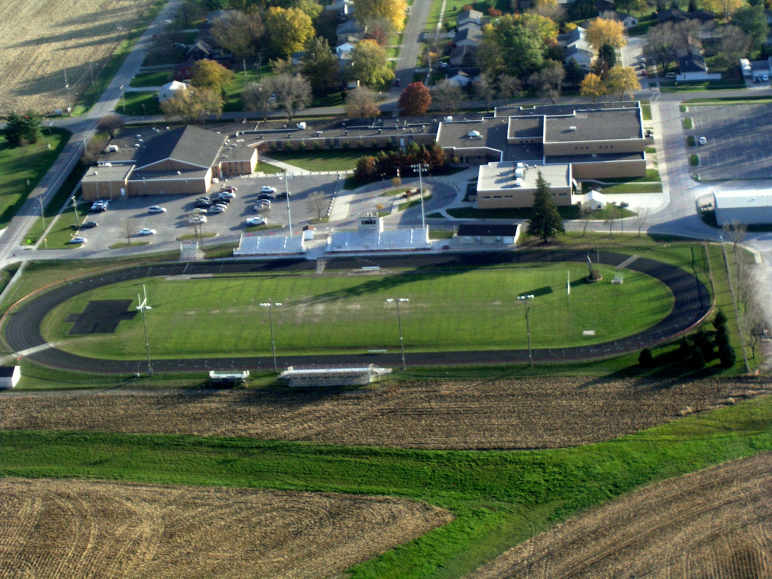 An aerial photo of Gilbert Senior High School